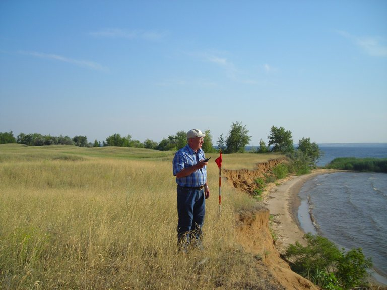 Proleysky island at the Volgograd reservoir